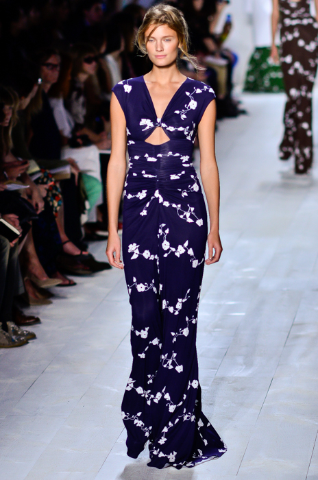 Constance Jablonski walks the runway at the Michael Kors Spring/Summer 2014 show at New York Fashion Week, September 2013.